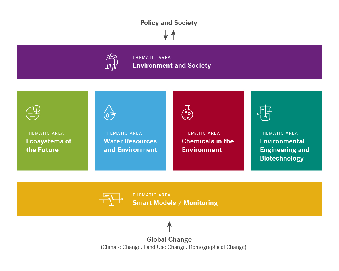 Research Strcuture uf the UFZ